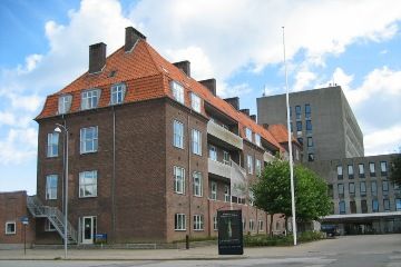 Fredericia Sygehus